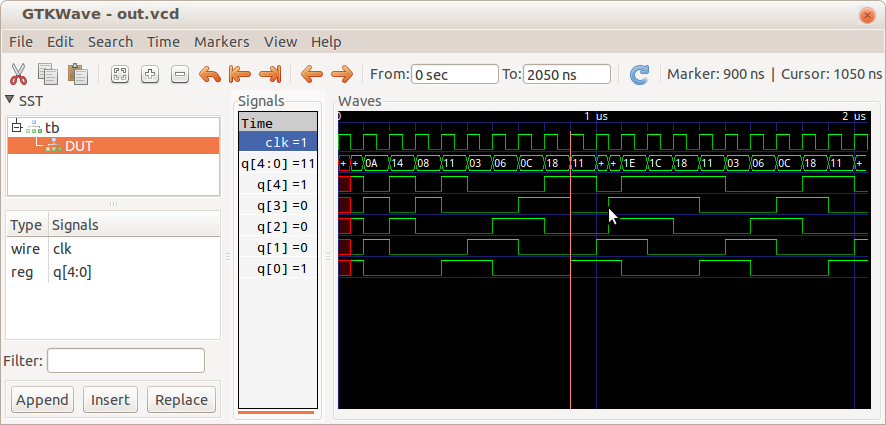 The GTKWave window with waveforms of simple example from Icarus Verilog article in Ukrainian Wikipedia.